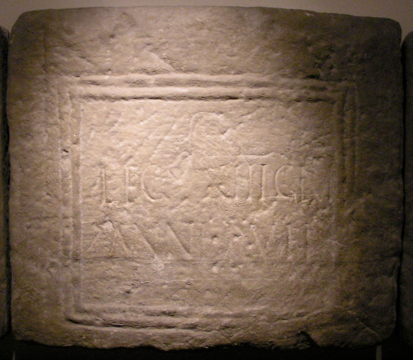 Part from the wall of Vindobona, containing a dedication by a man named Annius Rufus, mentioning the Legio XIII Gemina. Neu 133, in Epigraphik-Datenbank Clauss/Slaby